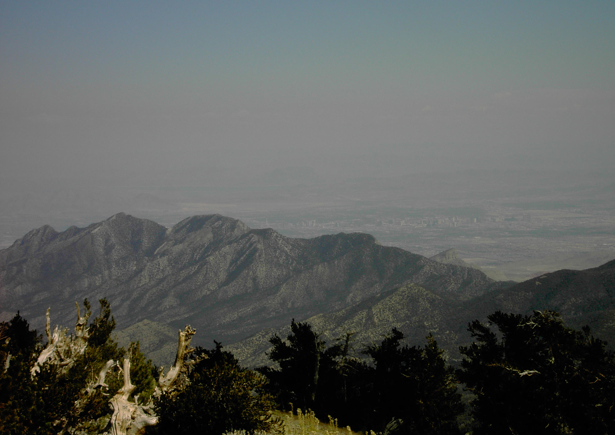 griffith_peak_summit